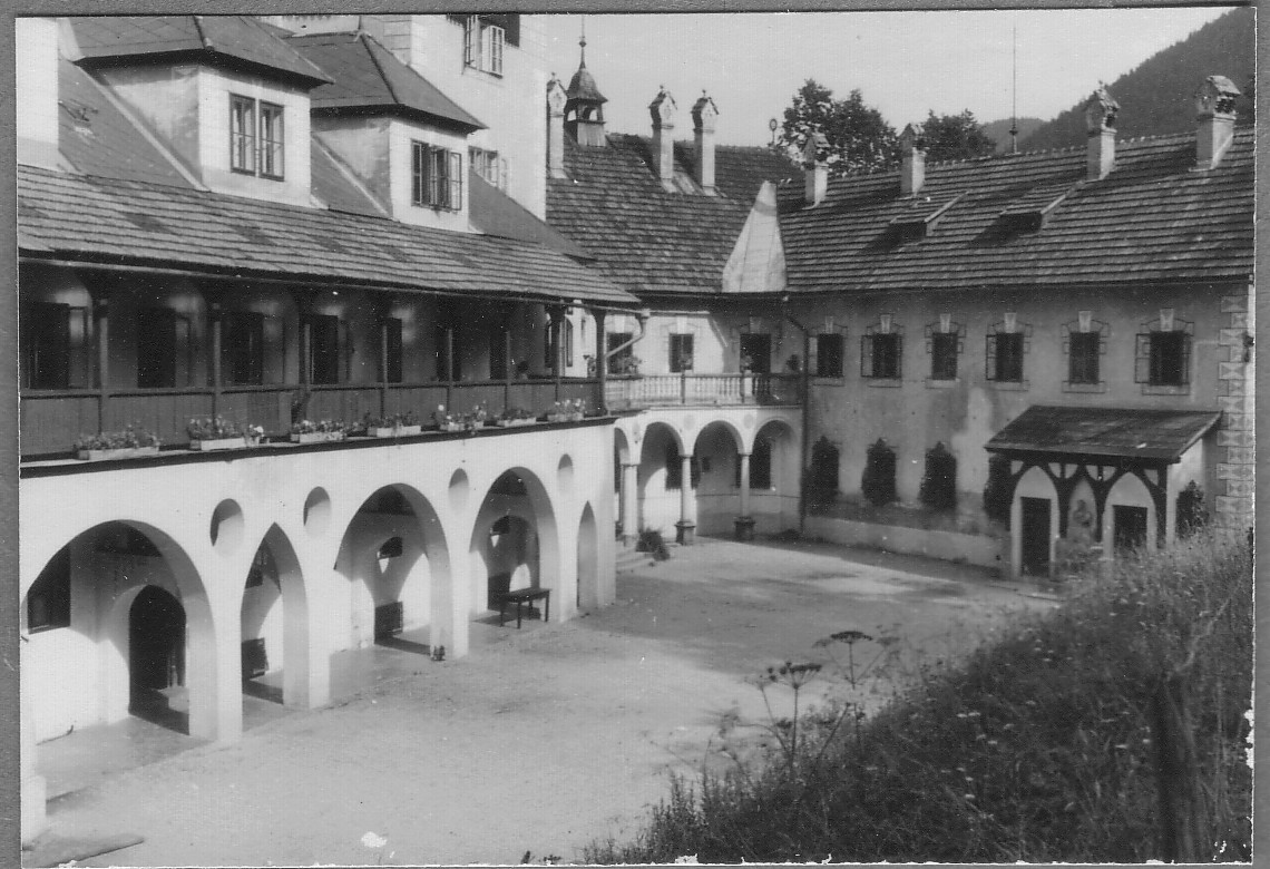 Kasseg Castle